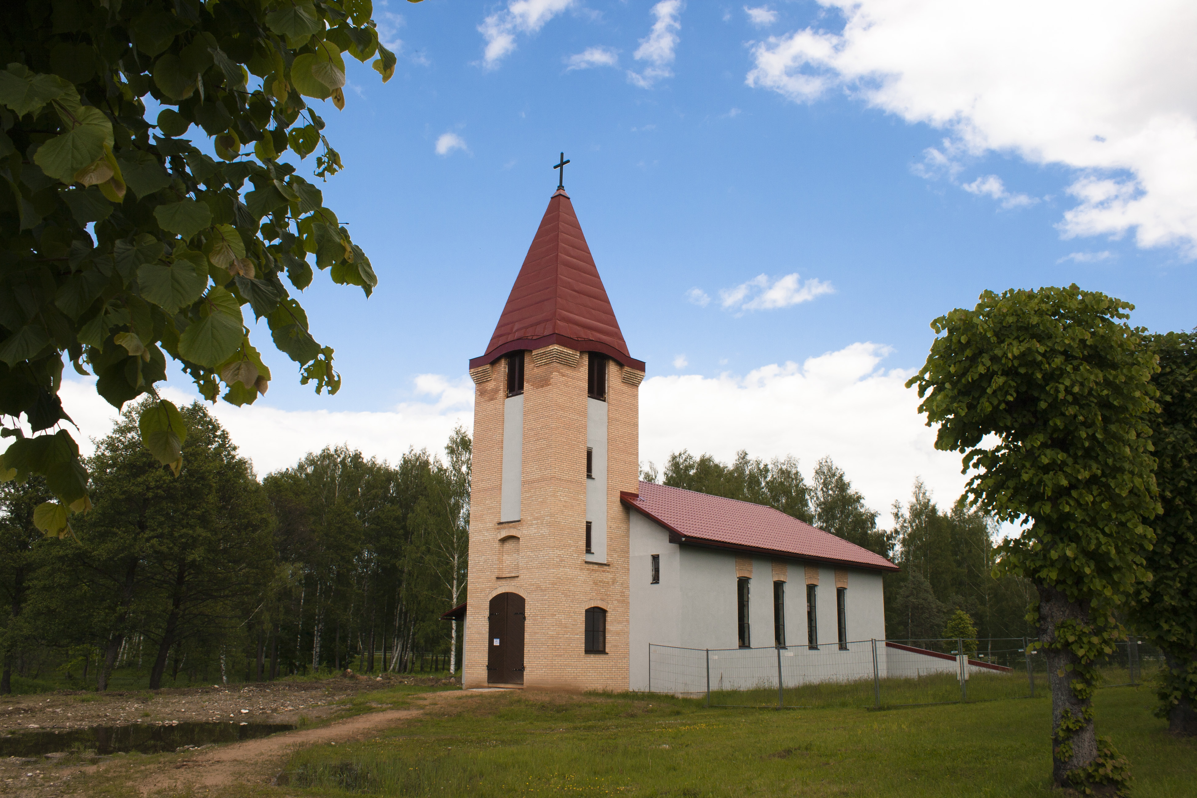 Ķegums churchLatviešu: Ķeguma evaņģēliski luteriskā baznīca